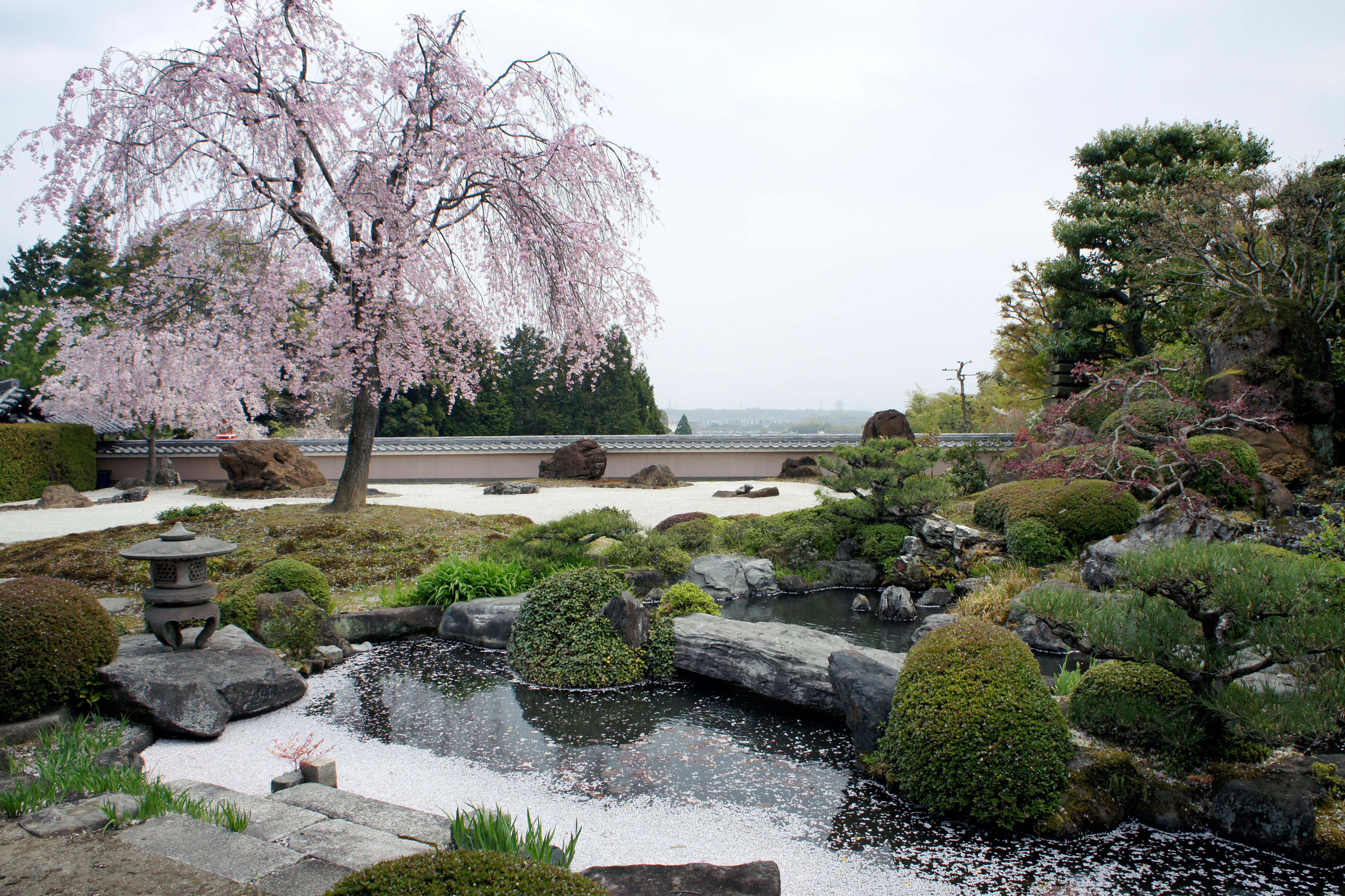 Shobo-ji in Nishikyo-ku, Kyoto, Kyoto prefecture, Japan